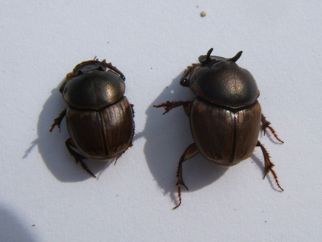 Onthophagus gazella adult males from College Station, Texas.